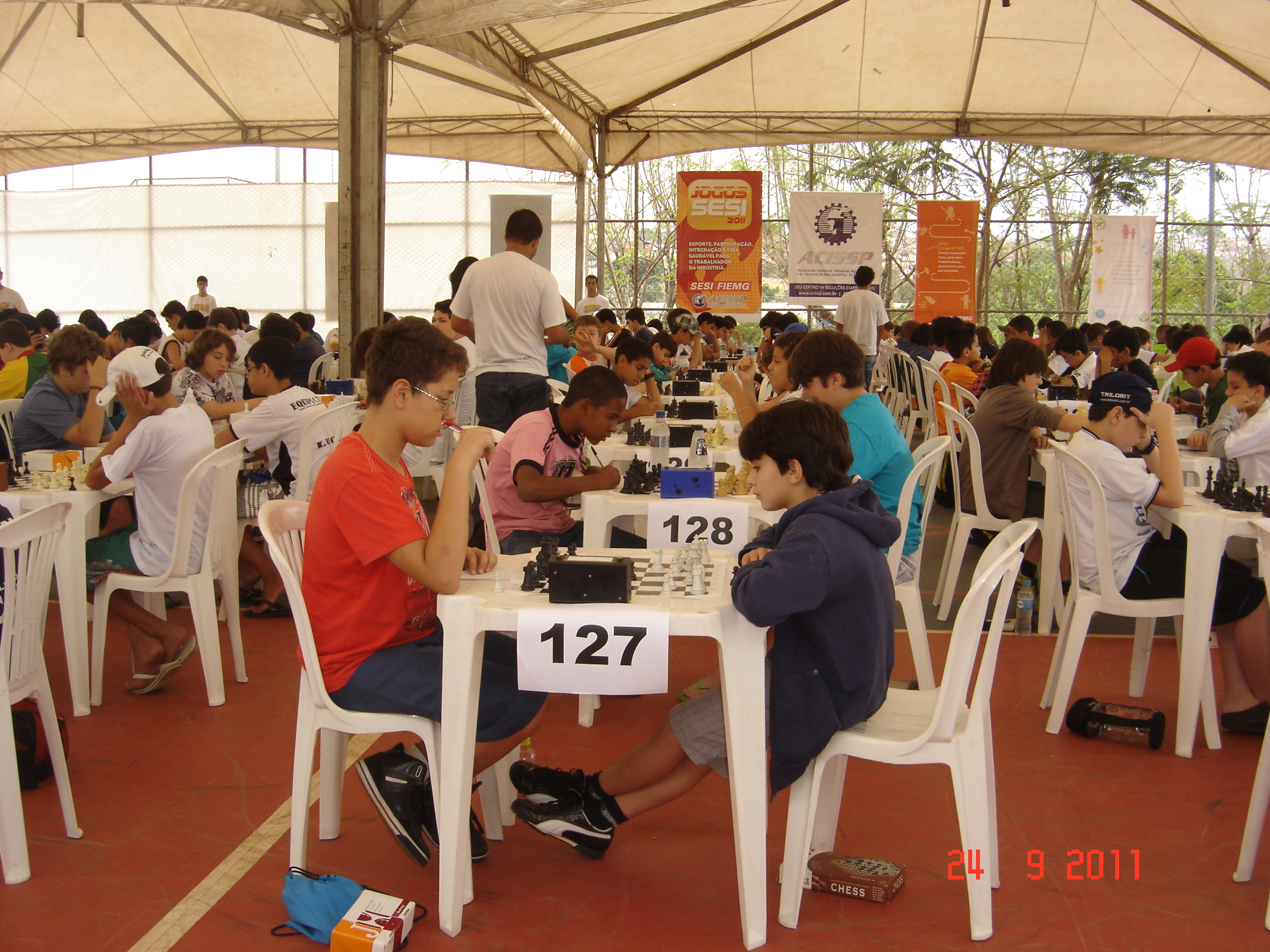 Kids play chess during the Campeonato Brasileiro de Xadrez Escolar, in São Sebastião do Paraíso, Brazil.